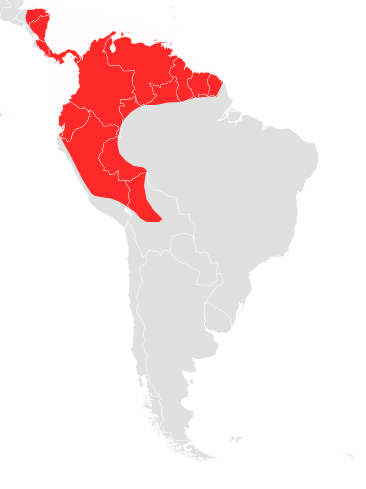 Distribution of Carollia castanea